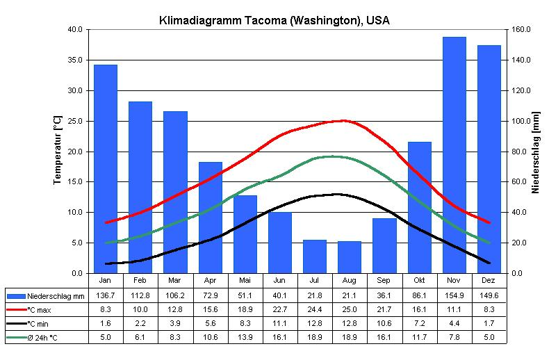 Klimadiagramm fuer Tacoma, Washington, USA. Erstellt mit Excel, per VBA-Makro als JPG exportiert